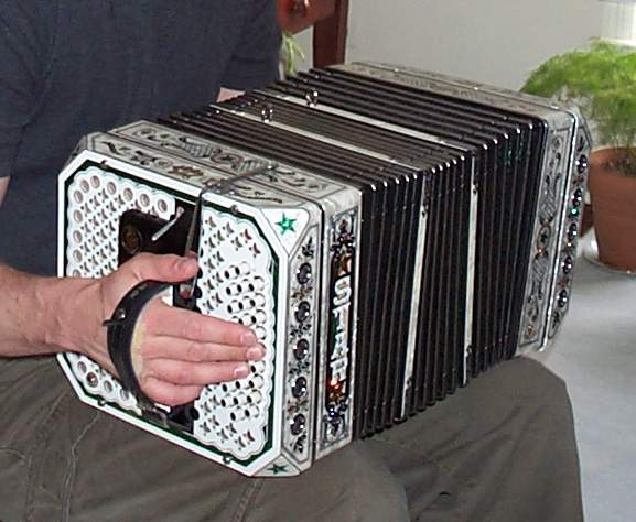 Chemnitzer concertina made by Star Mfg., Cicero, Illinois, USA in 2000. Treble Keyboard View. Photograph by Theodore Kloba.